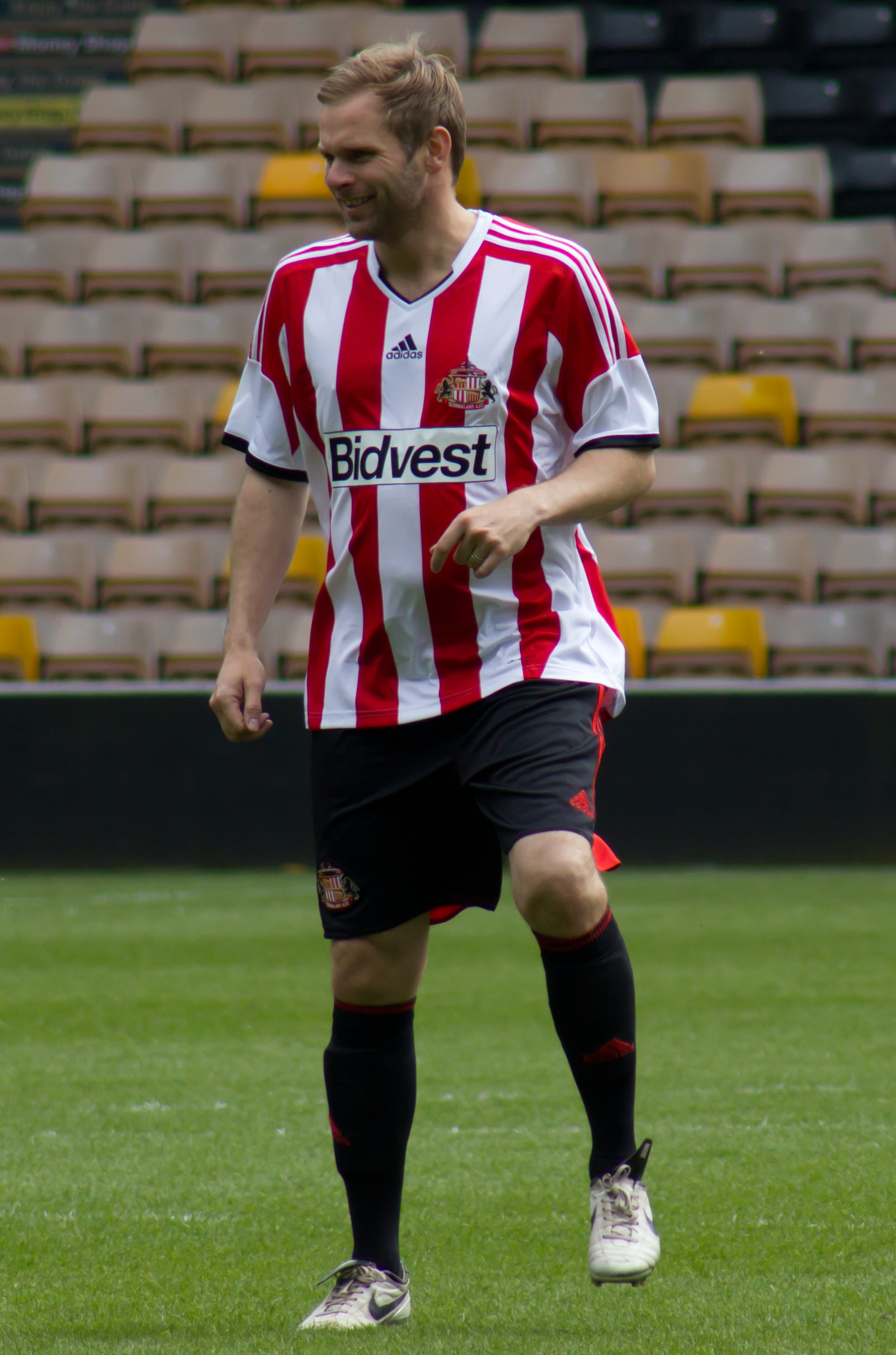 Michael Proctor during Jody Craddock testimonial game